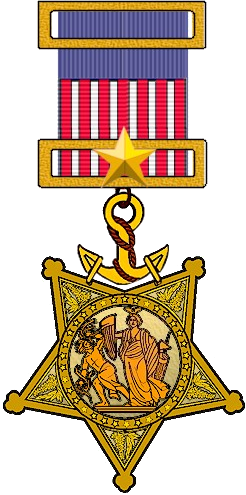 Depiction of the original 1862 United States Department of the Navy Medal of Honor, used until 1912.